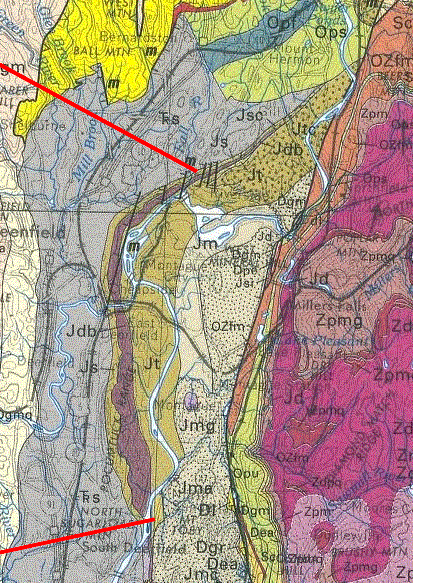 From USGS "Bedrock Geology of Massachusetts," 1983. Showing the bedrock of the Pocumtuck Range, Massachusetts; labels added. Key: Purple= traprock Brown and blue-grey= arkose sandstone Beige (righthand only)= conglomerate. Red arrows indicate extent of range. South Sugarloaf Mountain, arkose, is located just below the lower arrow